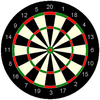 Diagram of a dart board.